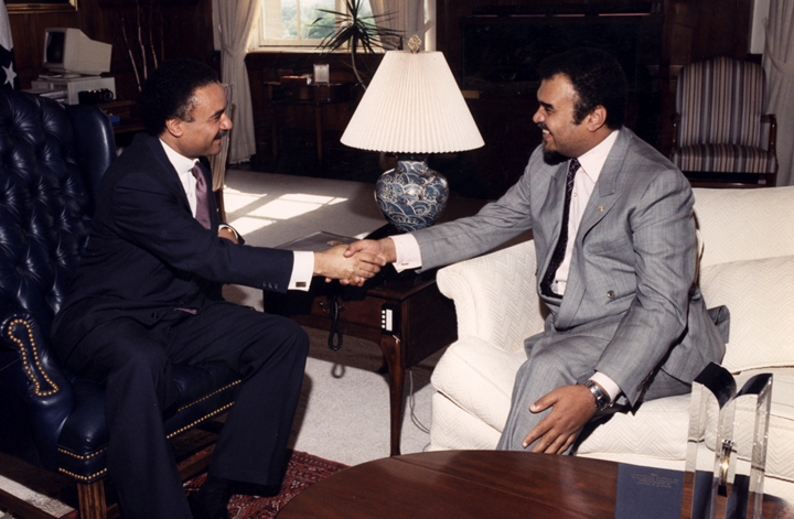 Ronald Harmon Brown, U.S. Secretary of Commerce, shaking hands